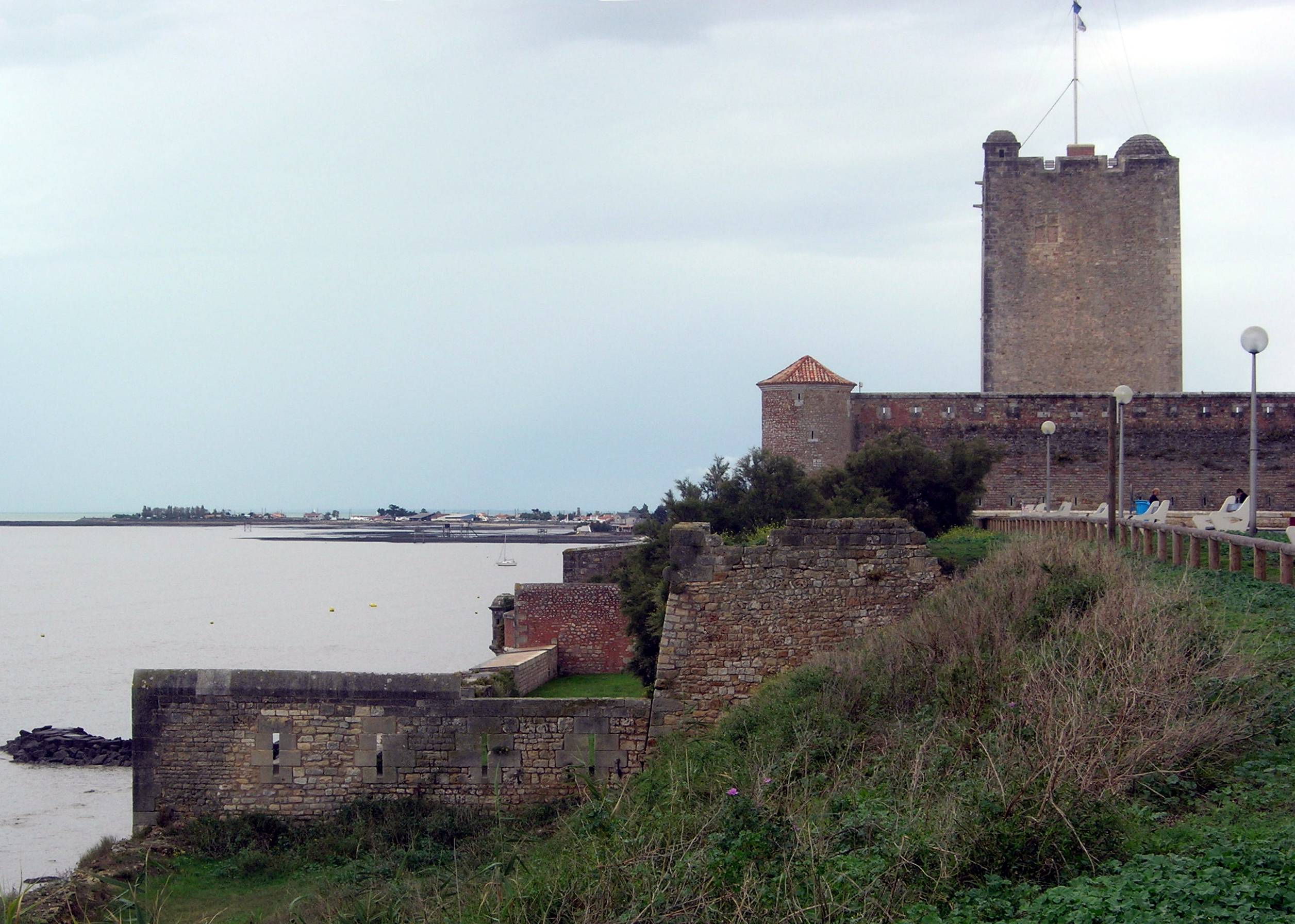 Description = Fort Vauban à Fouras Source =Photo taken by Remi Jouan Date =Septembre 2006 Author =Remi Jouan